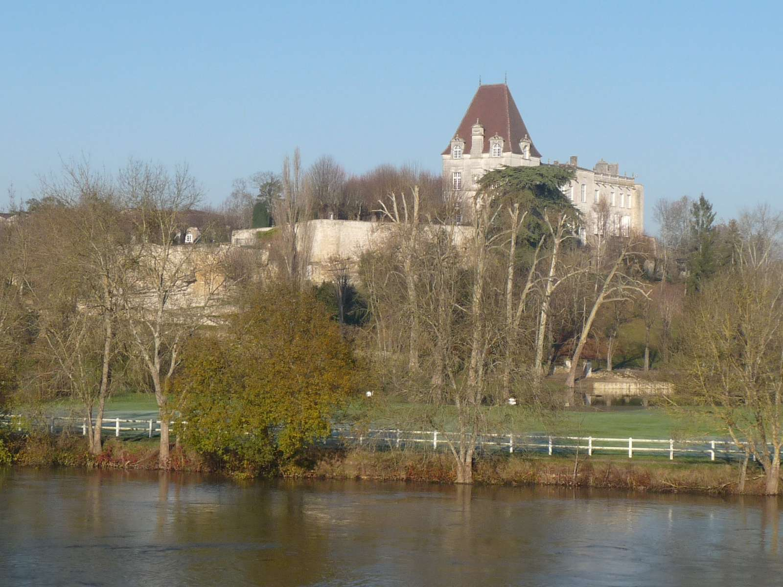 castle of Bourg-Charente, Charente, SW France